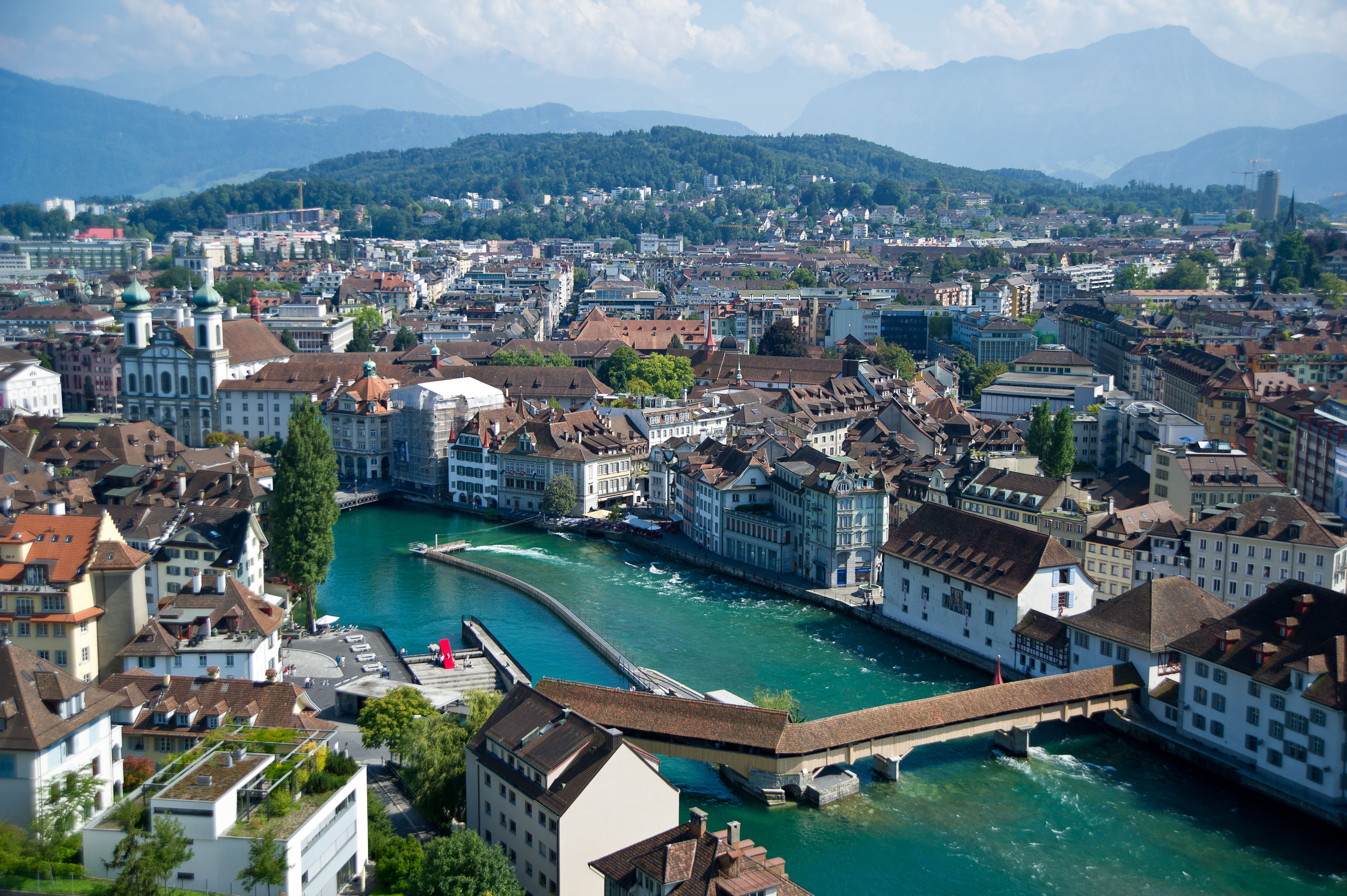 Spreuer bridge in Lucerne, Switzerland.